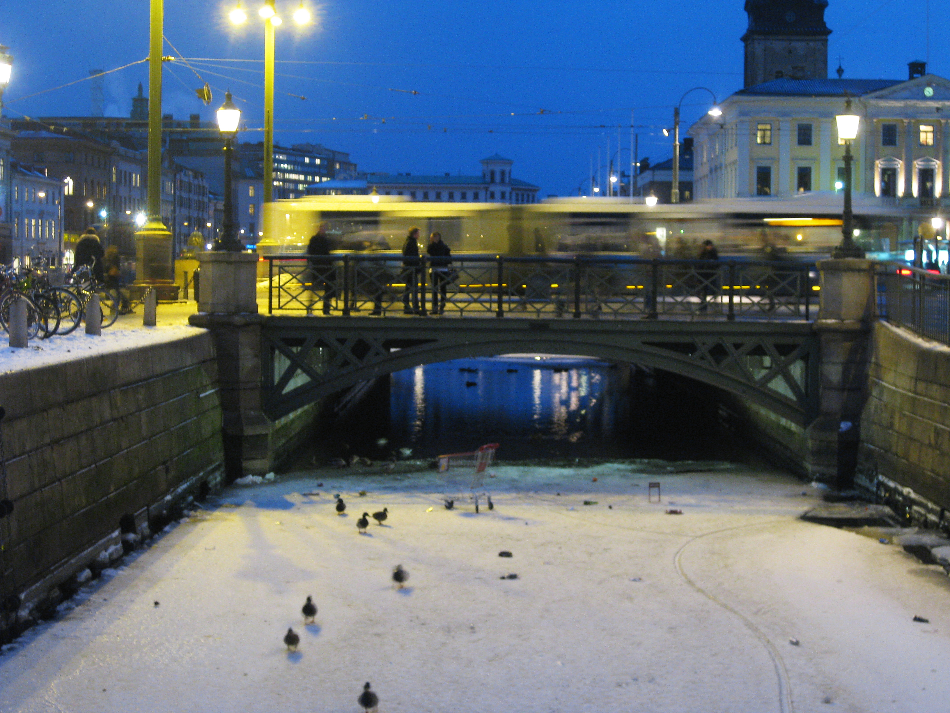 Fontänbron in Gothenburg, Sweden.